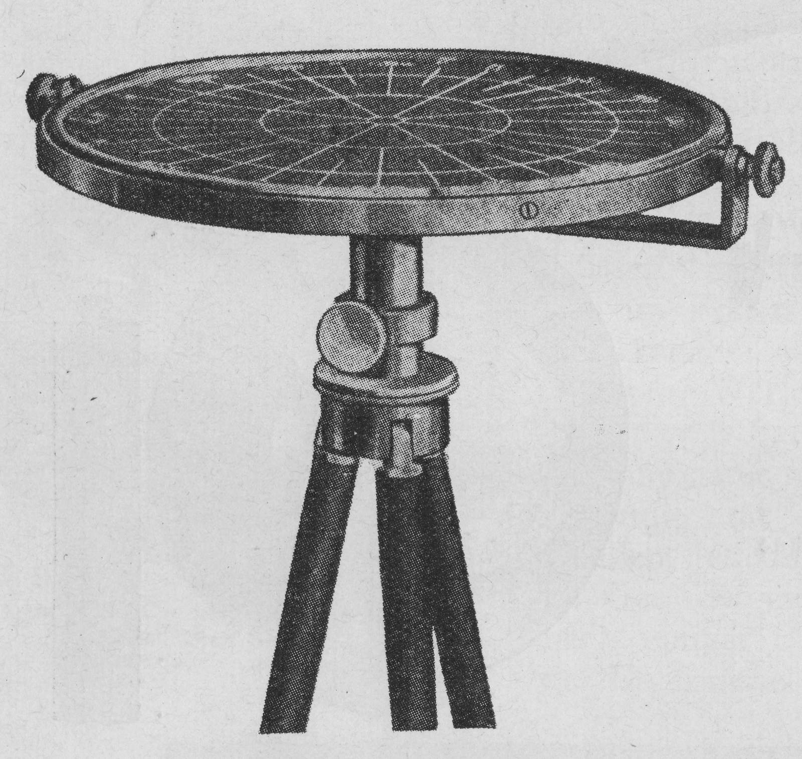 Nephoscope, instrument to mesure the direction of the clouds in the sky